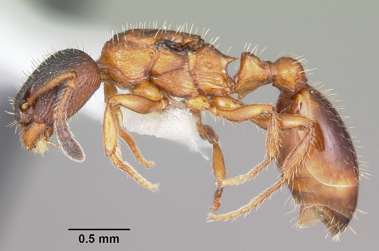 Profile view of ant Leptothorax acervorum specimen casent0104846.